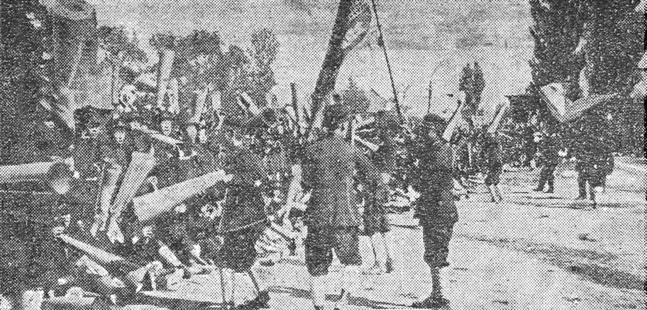 Baseball at the 1922 Korean National Sports Festival.